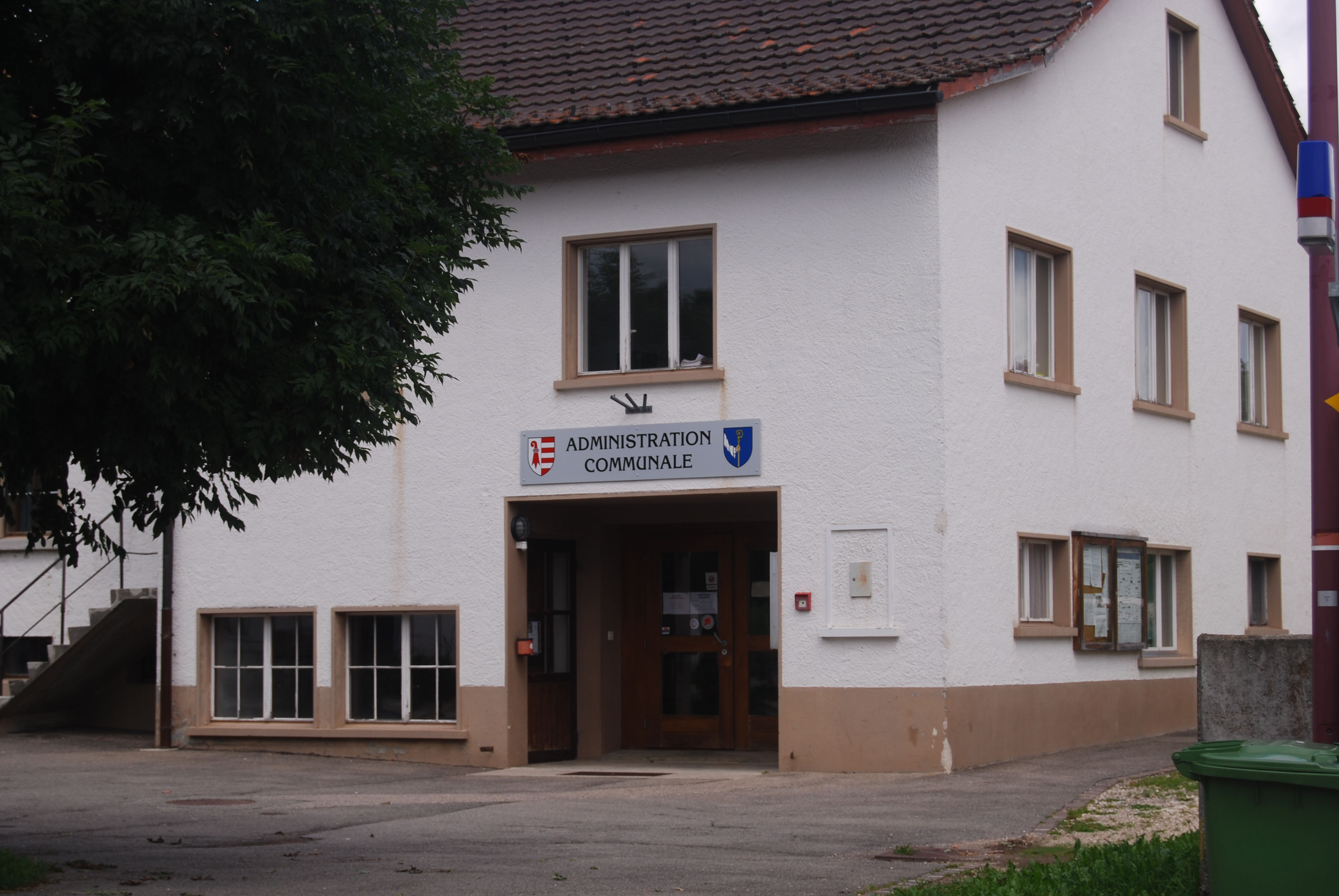 Lajoux, canton of Jura, Switzerland